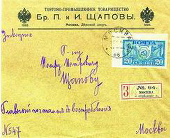 Cover of Soviet Russia, from Pyotr Shchapov's collection. Includes a 1921 Soviet Russia stamp, CPA #6.